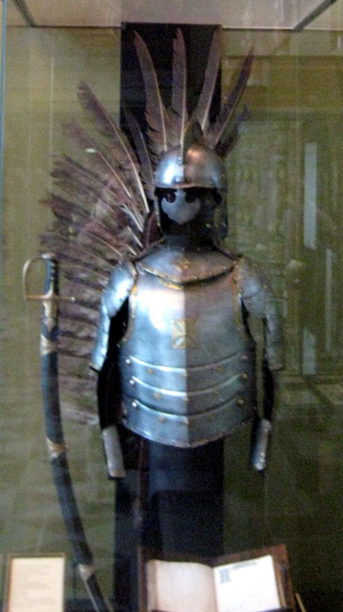 Polish hussar armour in Moscow museum